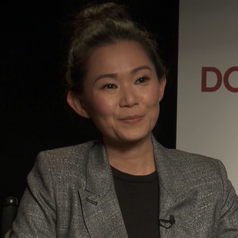 Actress Hong Chau in 2016